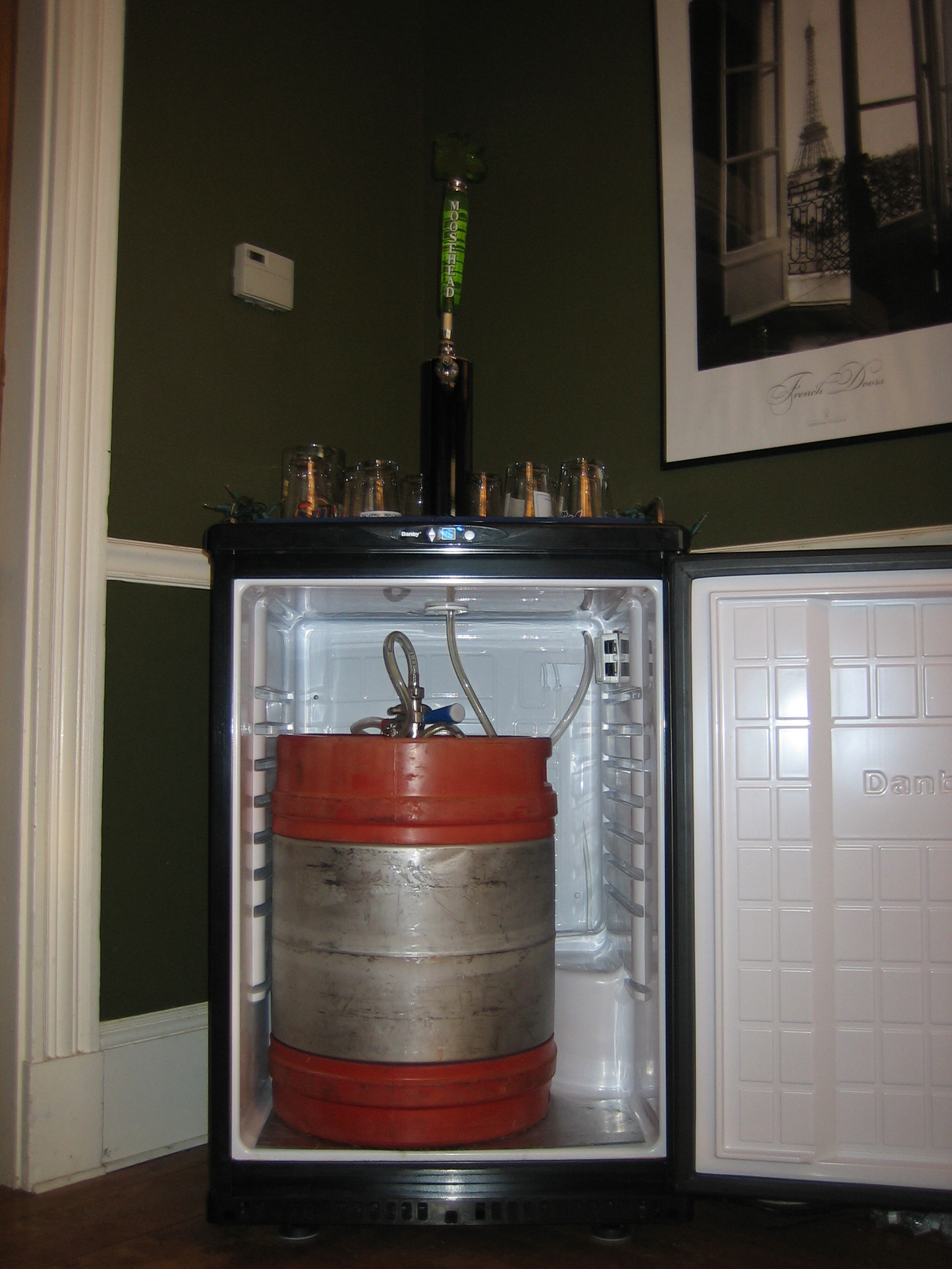 Danby Kegerator, Moosehead Lager 1/2 Barrel Keg, Moosehead Tap Handle